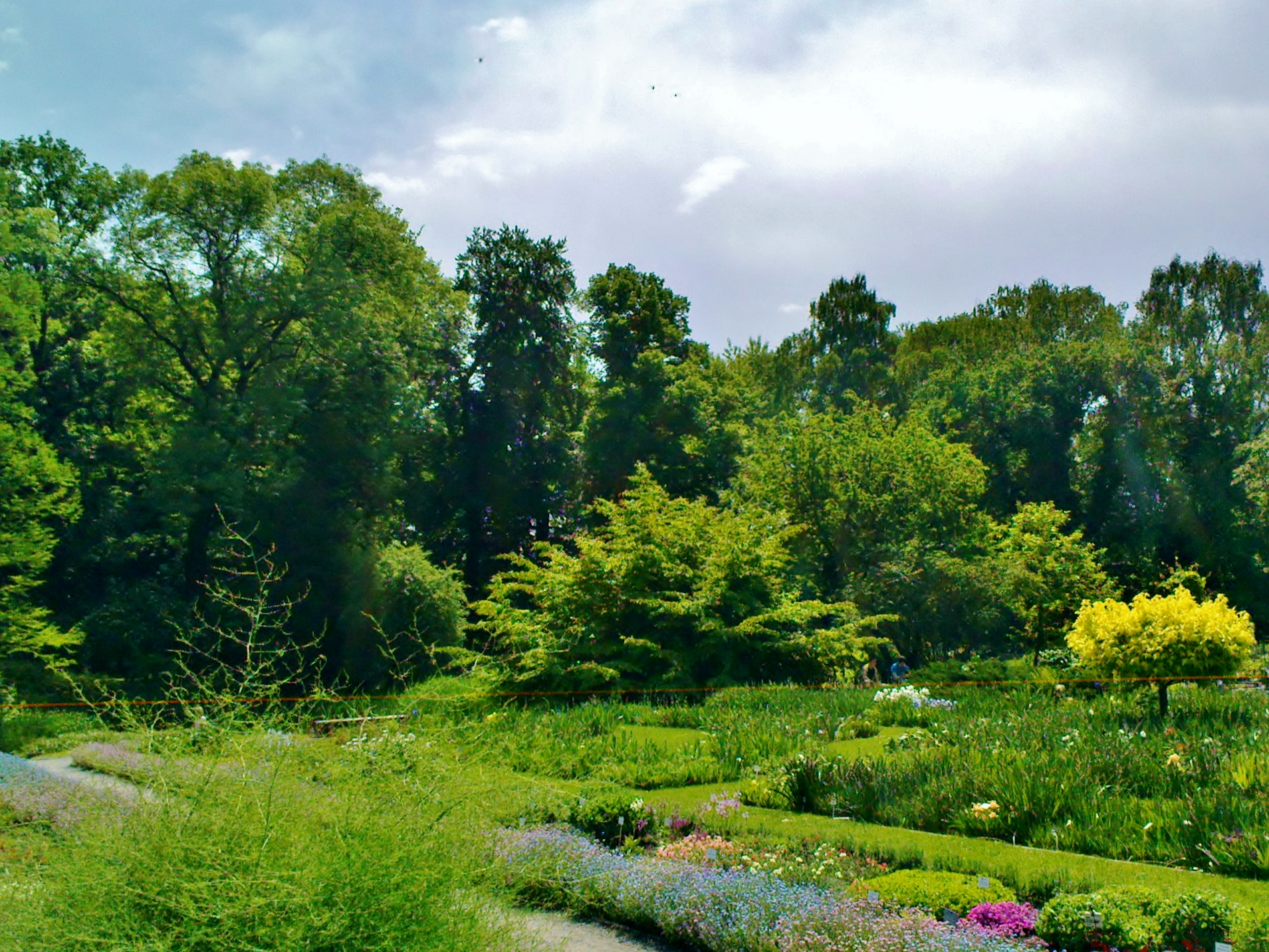 Kraków - the main lane in the Botanical Garden of the Collegium Śniadeckiego of the Jagiellonian University